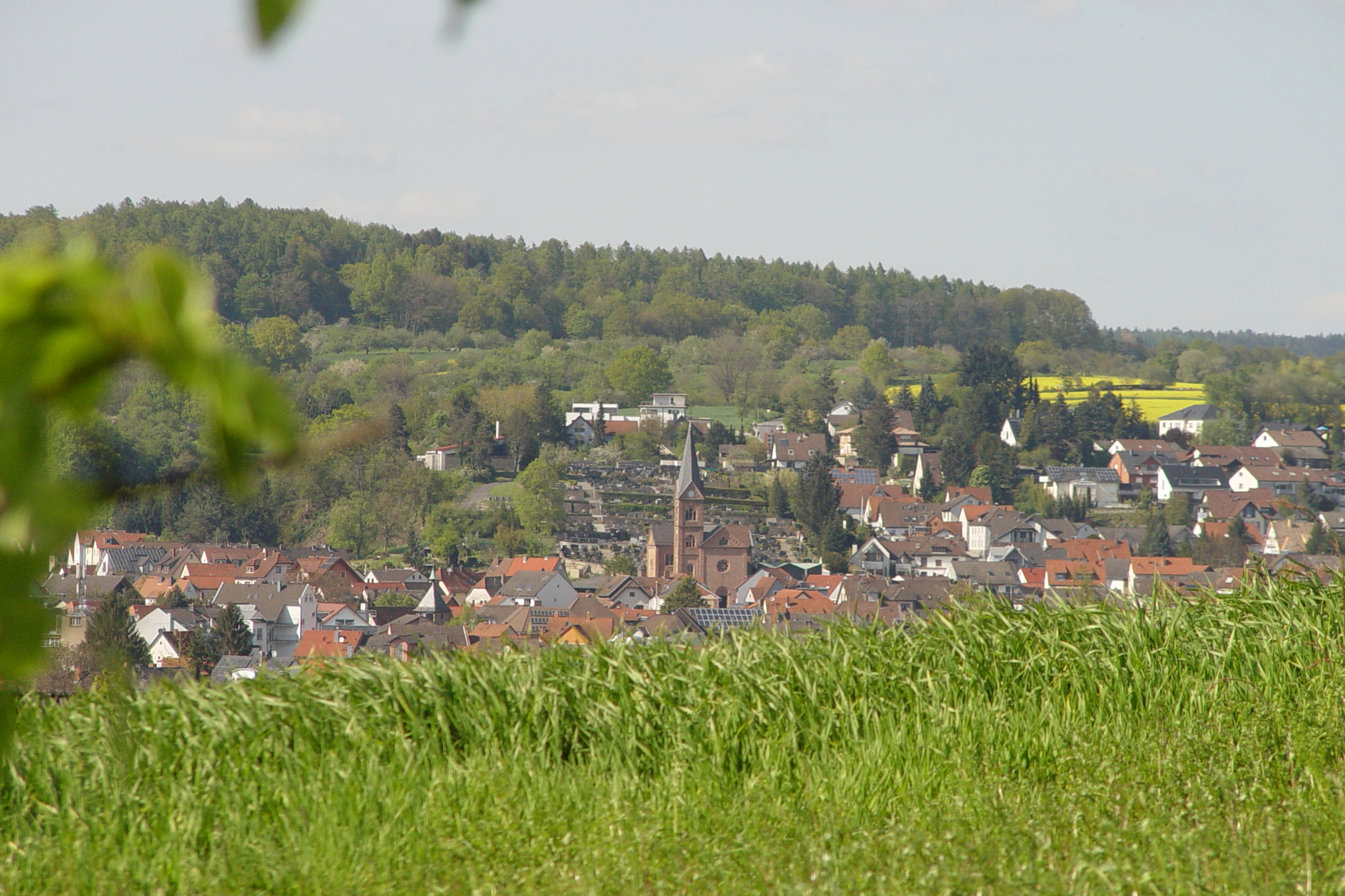 Goldbach (Lower Franconia) with St. Nikolaus and cemetery, Weidenboernerstrasse 1This is a photograph of an architectural monument.